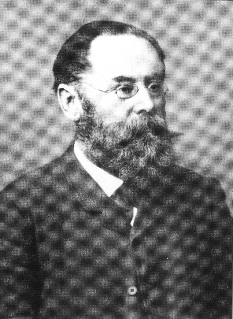 Richard Holtze